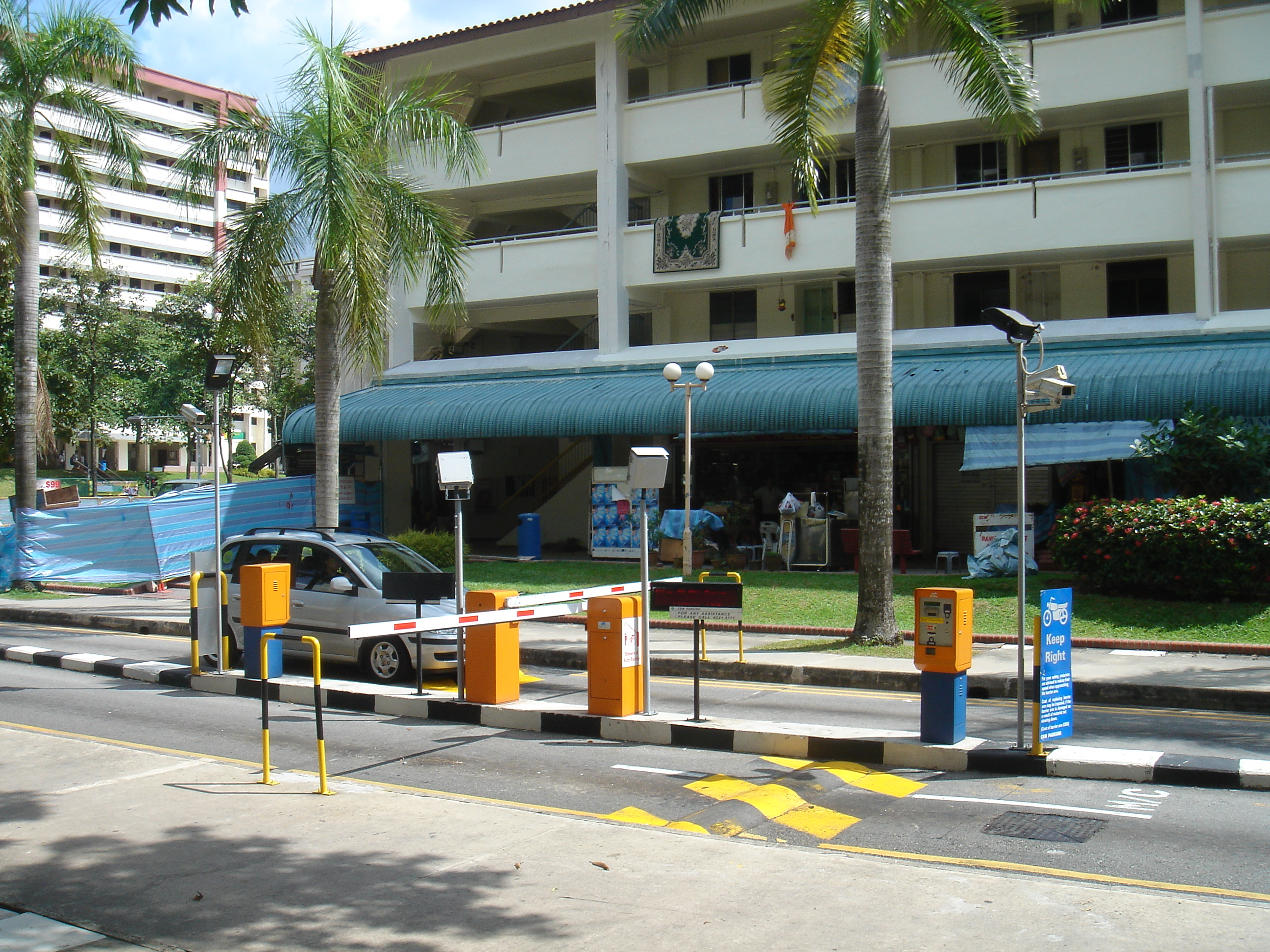 An Electronic Parking System (EPS) in a Housing and Development Board estate in Yishun, Singapore.